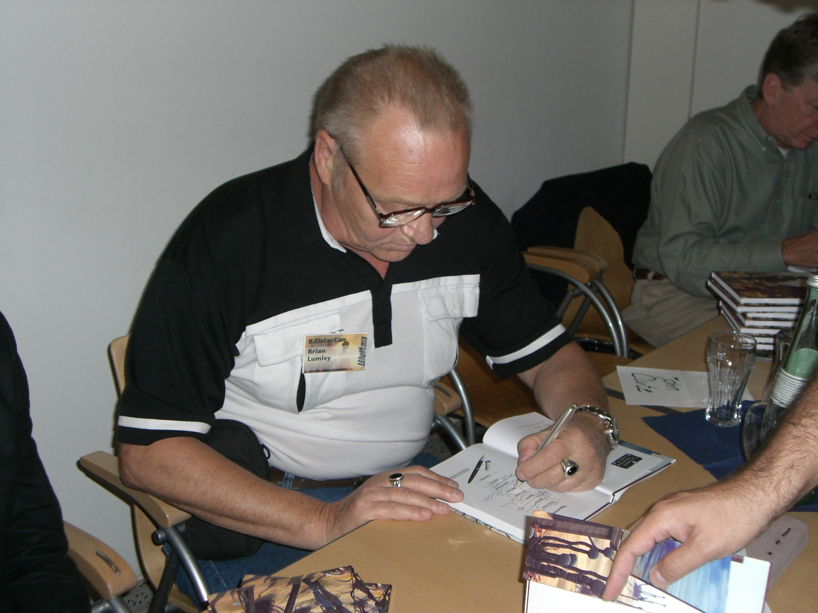 Elstercon - Brian Lumley